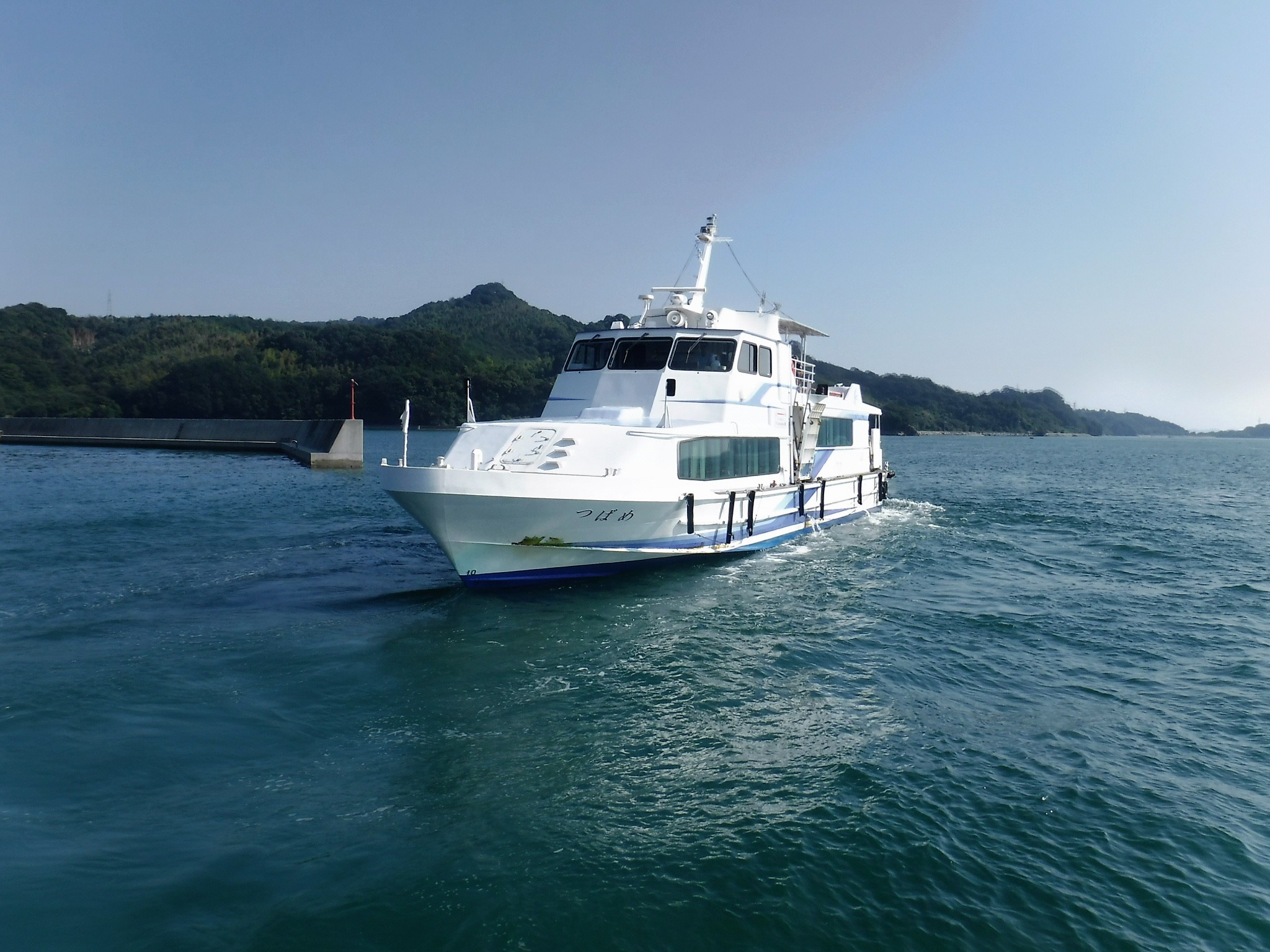 speedboat"tsubame", geiyokisen.co, JAPAN